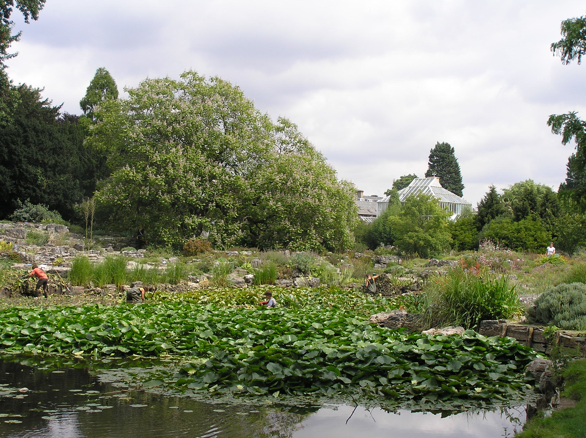 Photograph of Cambridge botanic garden showing the lake and glasshouses. Picture taken 10th August 2005 by NH Savage, uploaded on the english wikipedia by User:NHSavage